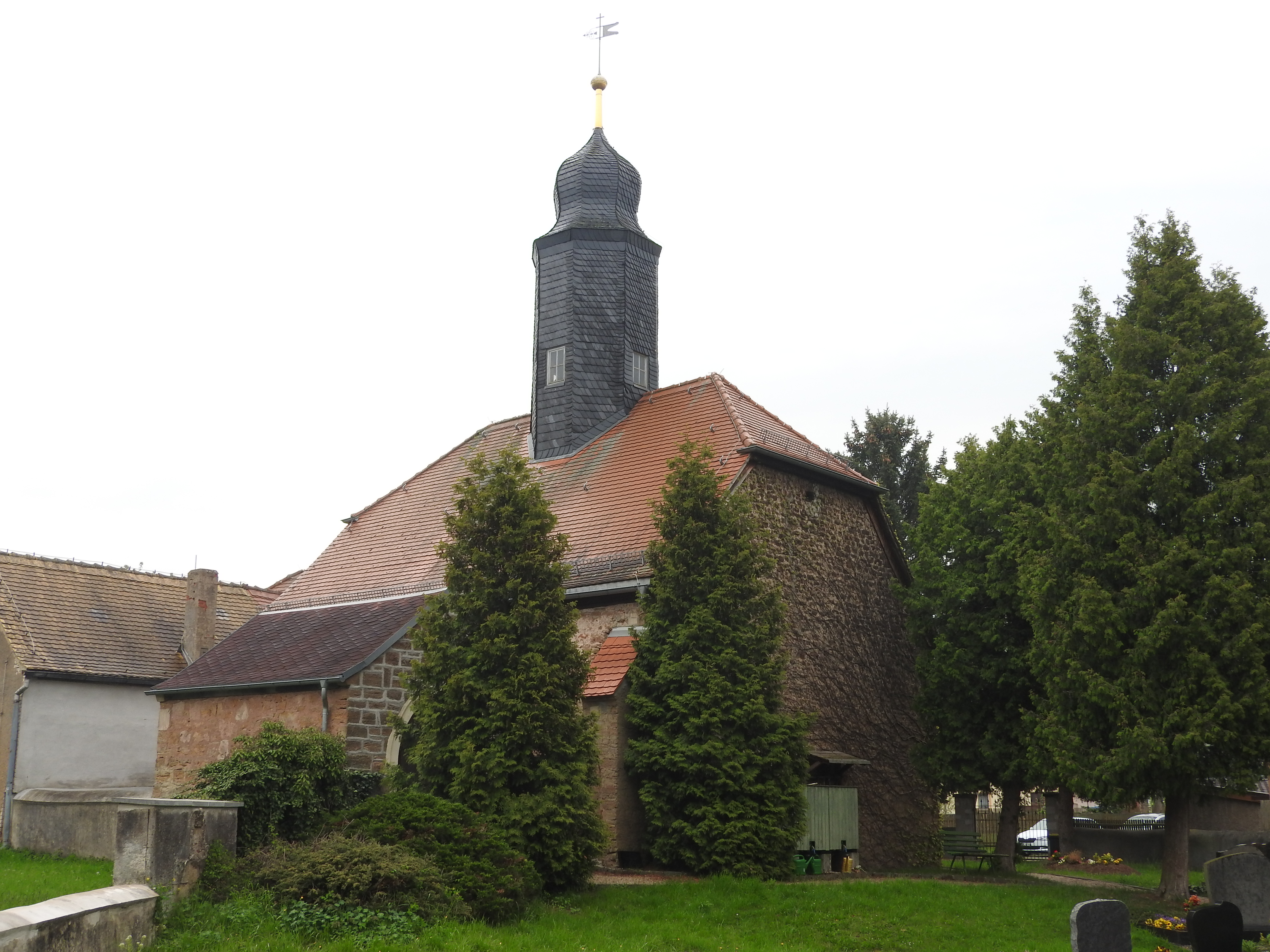 Kirche in Untitz, Thüringen